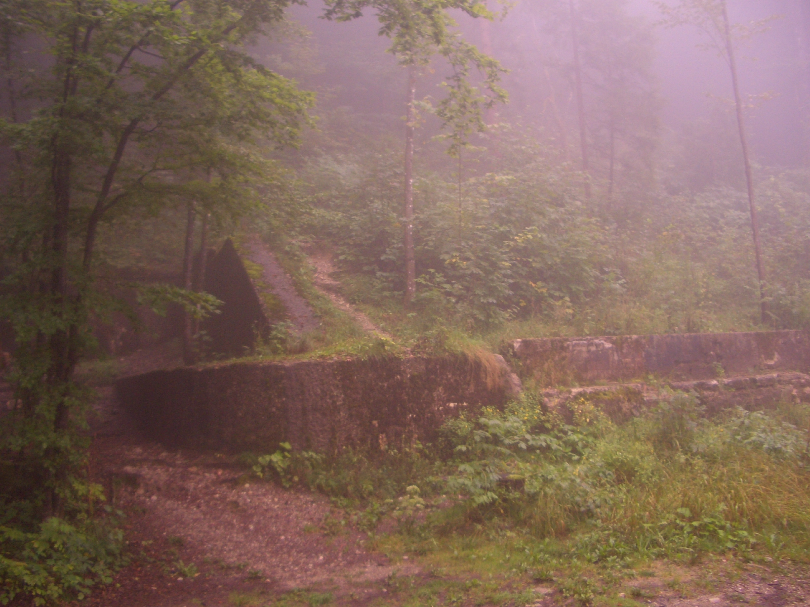 Ruine Berghof